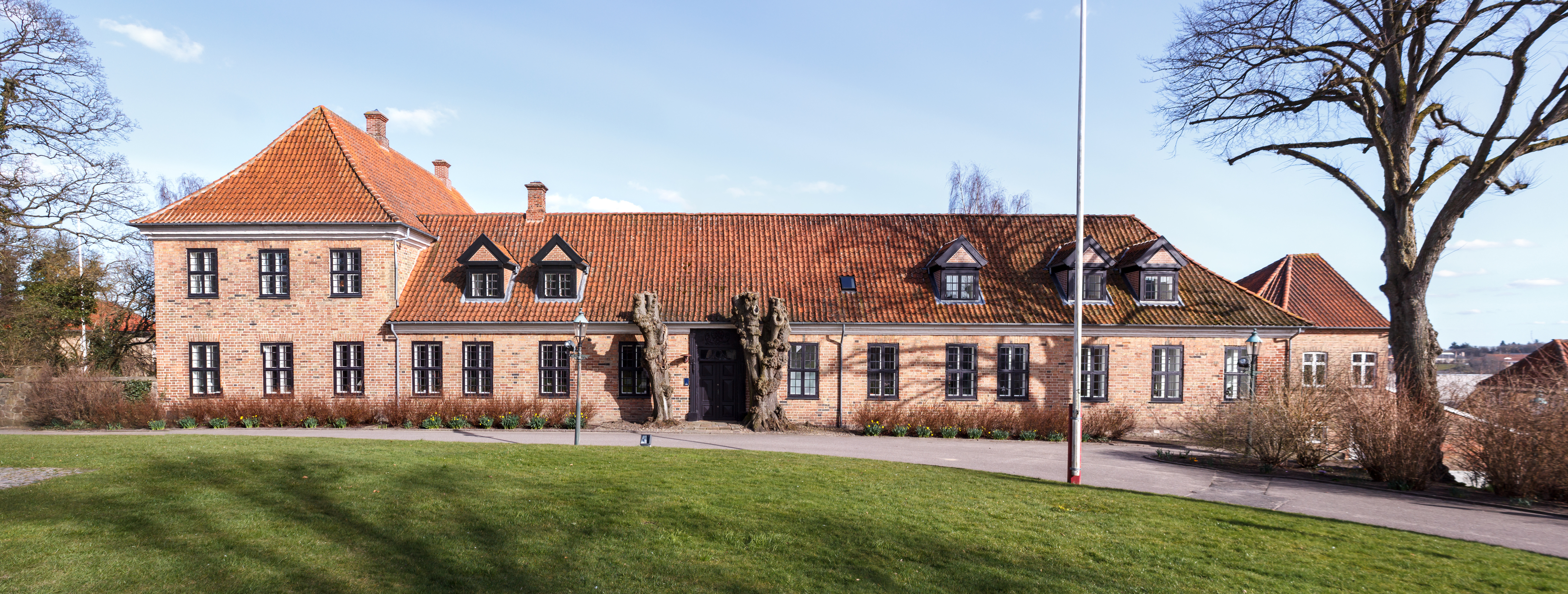 Bishop's palace in Viborg, Denmark, western facade